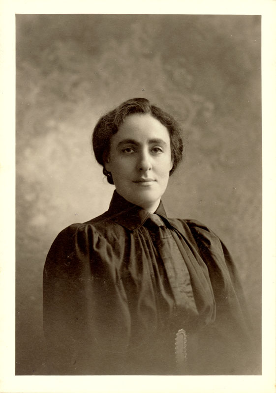 Rachel "Ray" Frank - Litman. 1897. Considered as the woman who has started the emancipation of the women in the Jewish congregation.